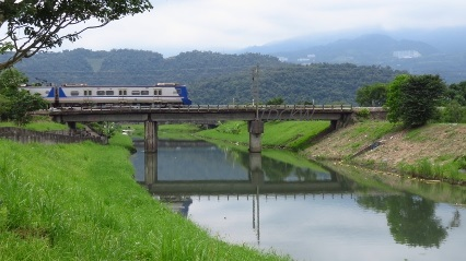 中文（台灣）: 台鐵宜蘭線淇武蘭川橋 was filmed by TDCKW on 20190608